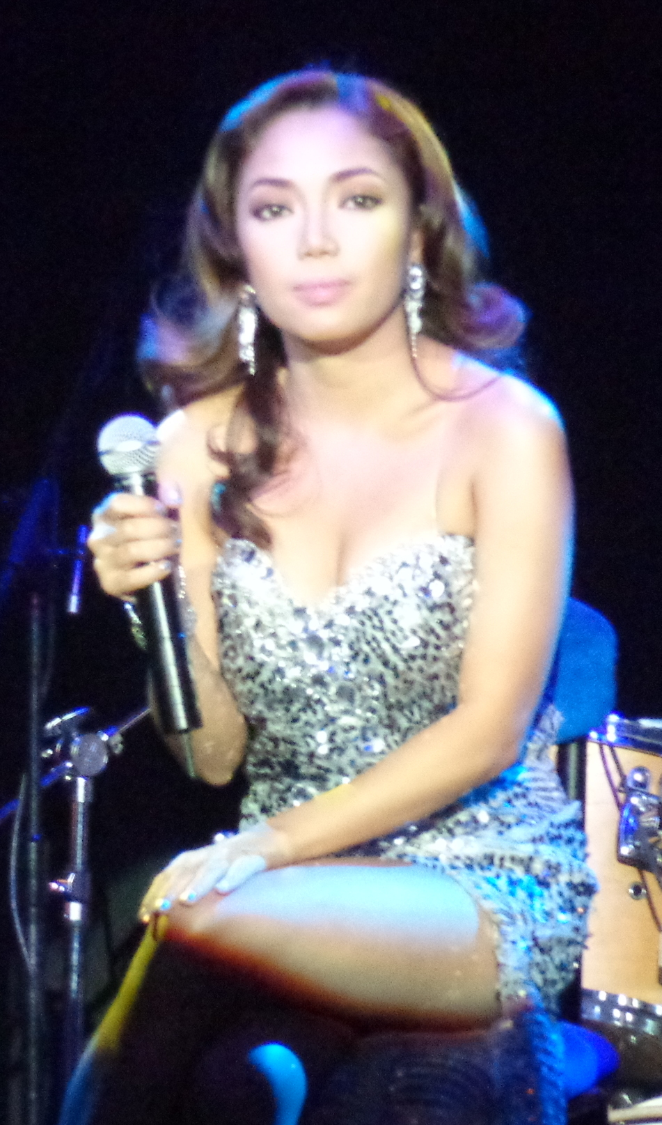 E:\DCIM\100MSDCF\DSC00585.JPG Taken using Sony Cyber-Shot DSC-H90